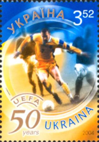 Stamp. Ukrainian football. 50th Anniversary of UEFA. 2004